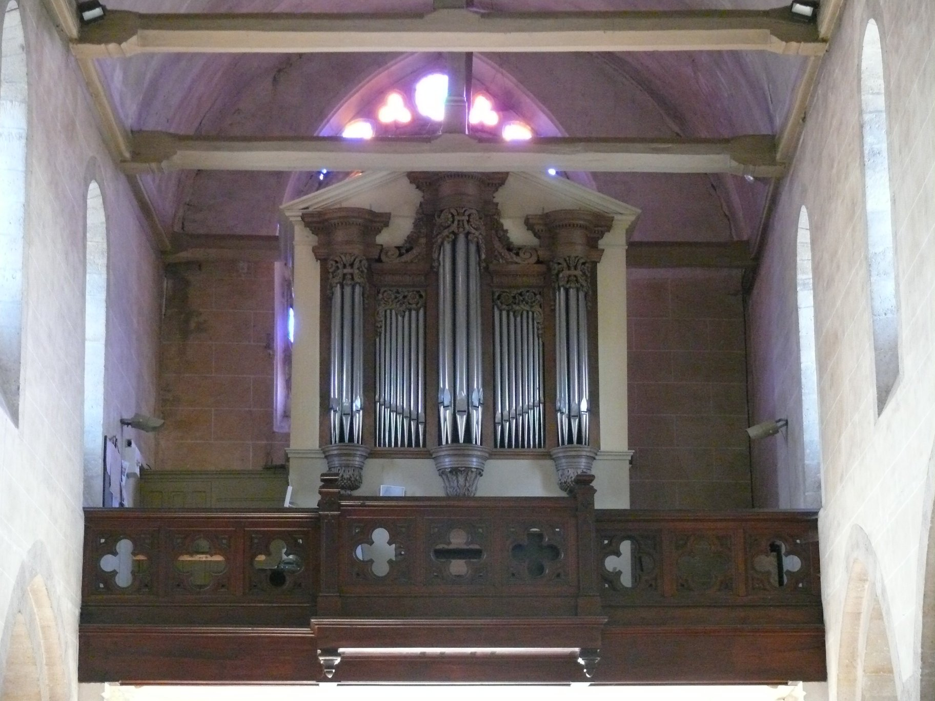 Saint-Denis' church of Crépy-en-Valois (Oise, Picardie, France).